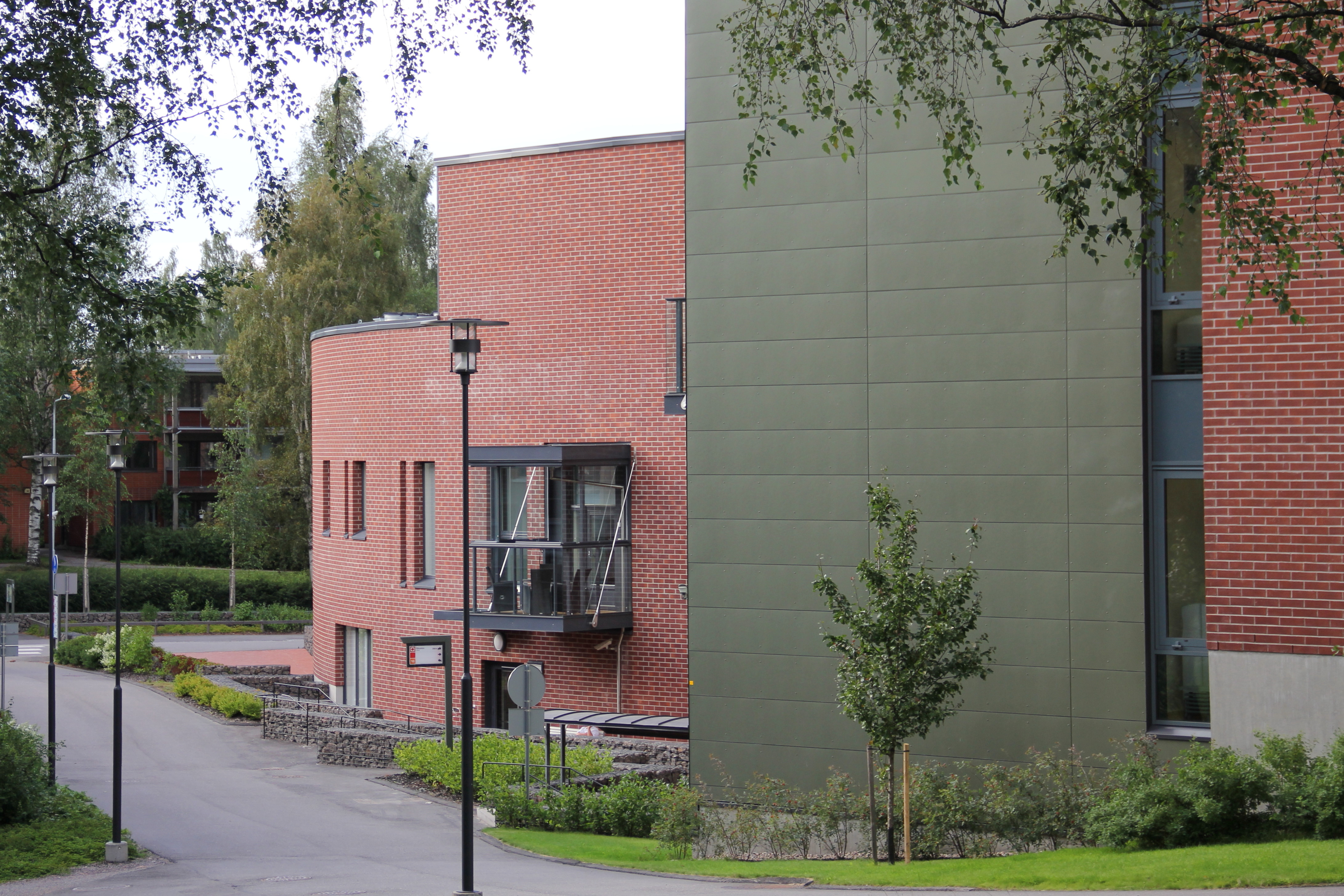 Malmi hospital, Helsinki, Finland. - Southern facade of 2014 building nr 2. New building designed by architect Olli Pekka Jokela and AW2 Architects and completed in 2014.